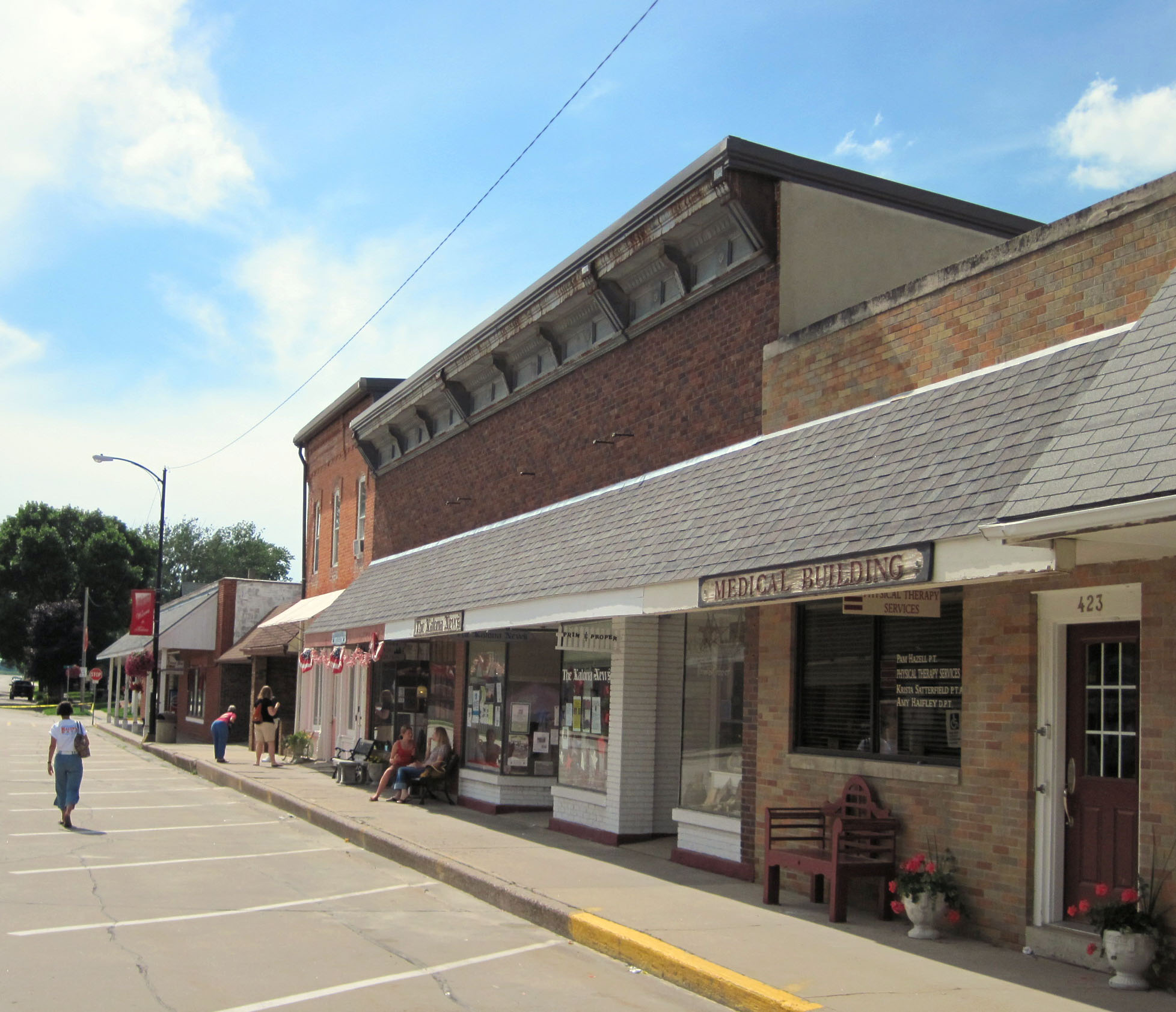 Kalona Bill Whittaker (talk) 12:45, 22 June 2009 (UTC)